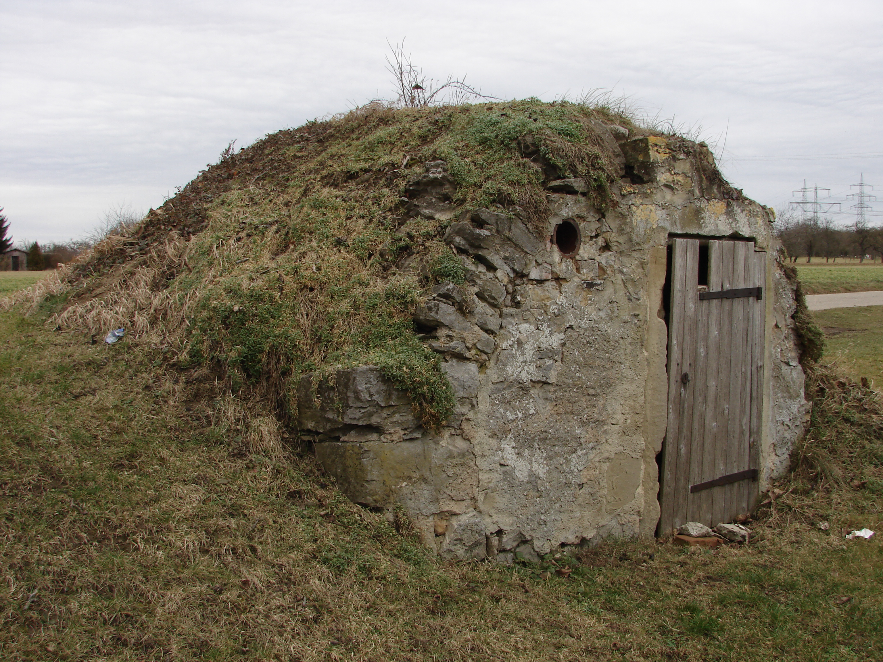 Freiberg am Neckar, shelter for winegrowers and their tools